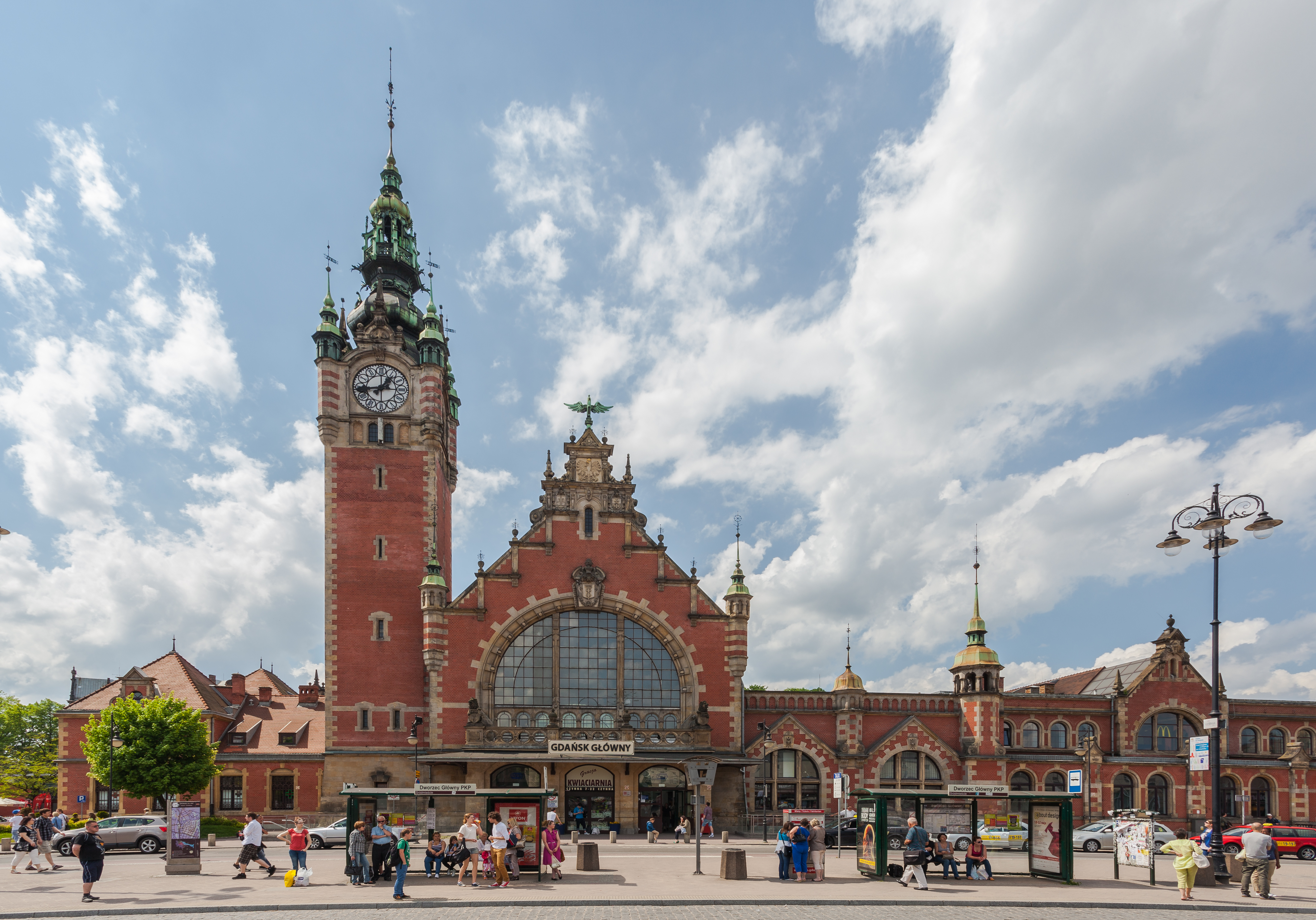 Central Railway Station, Gdansk, Poland